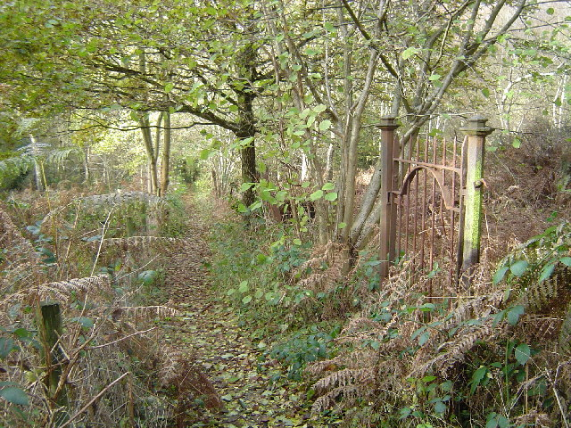 Harefield: Park Wood, Hill End. Along the route of the Hillingdon Trail footpath, the function of the metal gate is lost in the mists of time...